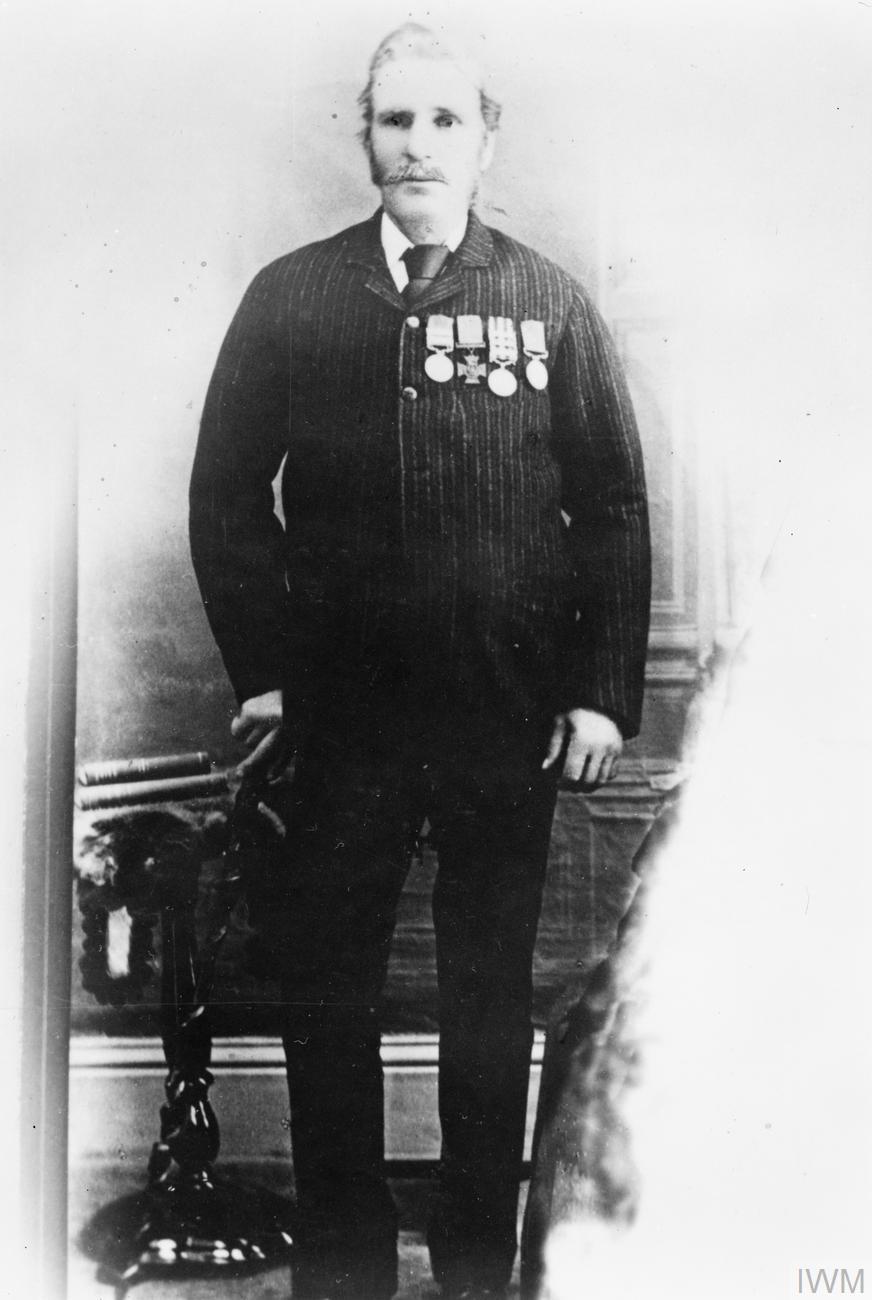 Victoria Cross Winners of the Indian Mutiny 1857 - 1858 Portrait of General William Martin Cafe VC, a veteran of the Indian Mutiny. Captain Cafe served with the 56th Bengal Native Infantry, Indian Army during the Indian Mutiny. He was awarded the Victoria Cross, aged 32, for the following action: "On 15 April 1858 during the attack on Fort Ruhya, India, Captain Cafe, with other volunteers ( Edward Spence and Alexander Thompson) carried away the body of a lieutenant from the top of the glacis in a most exposed position under a very heavy fire. He then went to the rescue of one of the privates who had been severely wounded."